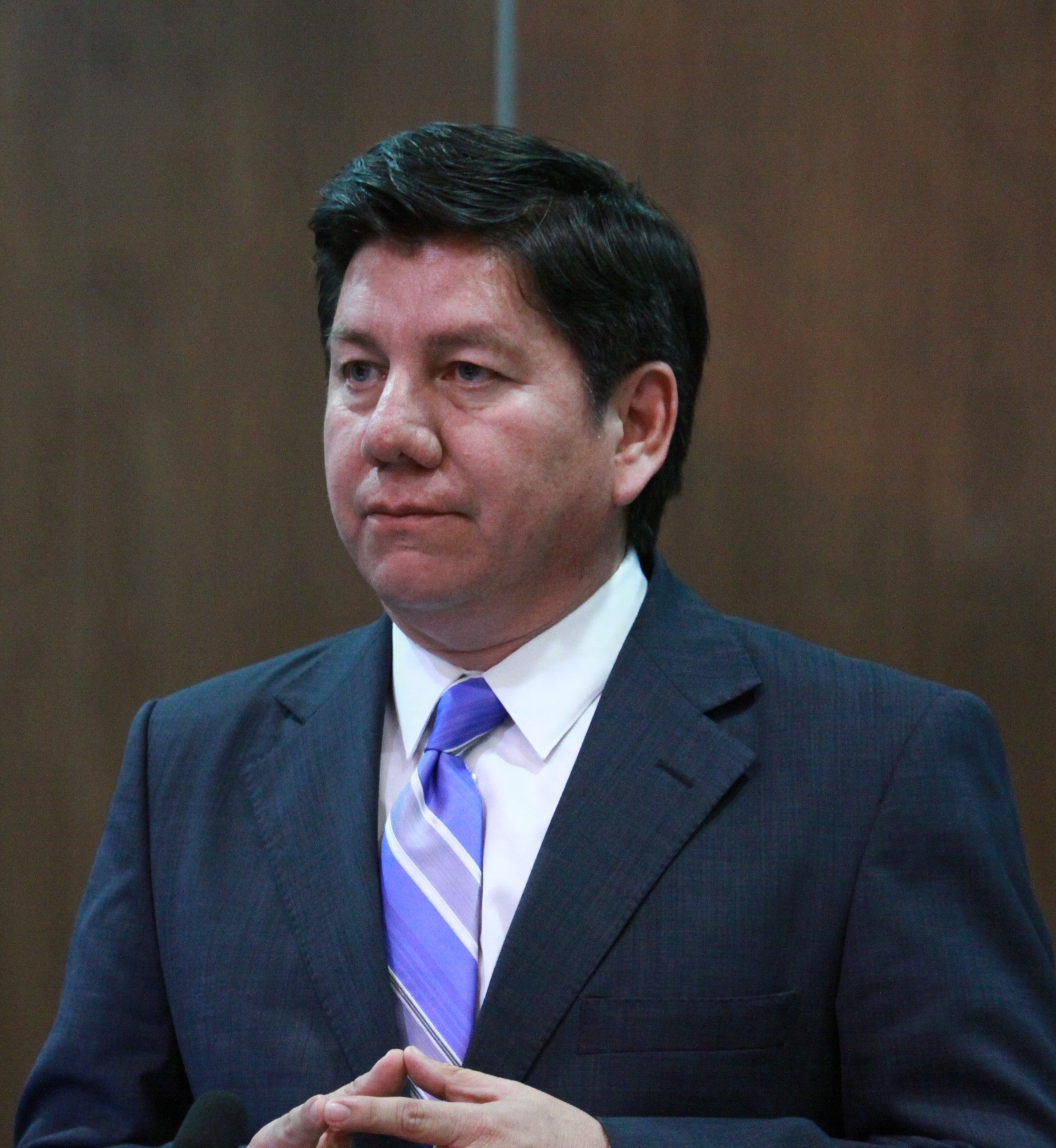 Johnny Terán. Cropped version of File:Asambleísta Jonny Terán en su intervención en la sesión N.- 244 del Pleno de la Asamblea Nacional (9354372828).jpg